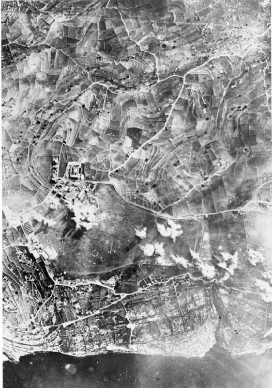 Vertical aerial photograph taken during a bombing attack by Italian Air Force on Hal Far airfield, Malta. Bombs are seen exploding on the installations in the northern corner of the airfield and over its eastern perimeter.